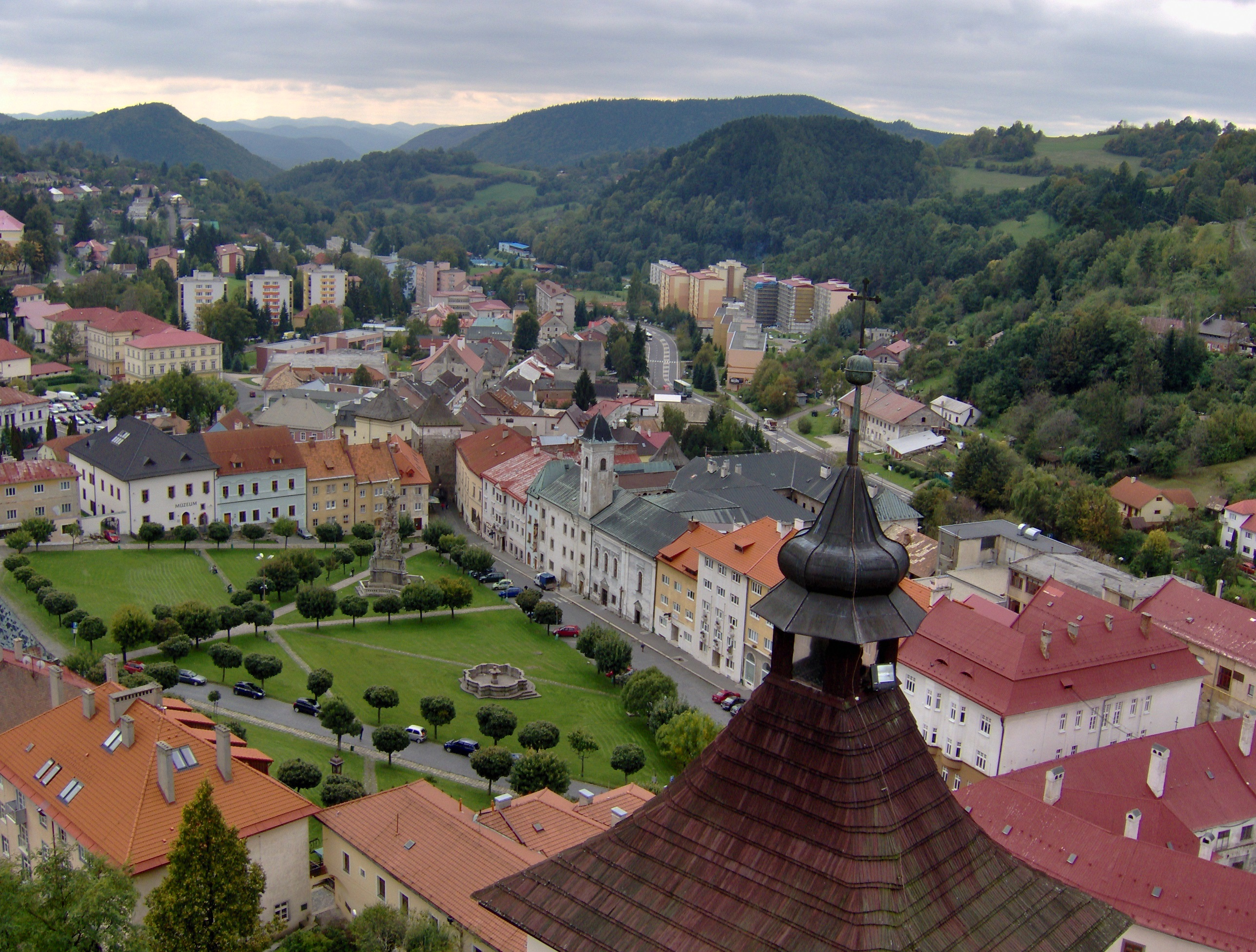 Kremnica- view from the tower in Saint Catherine Church